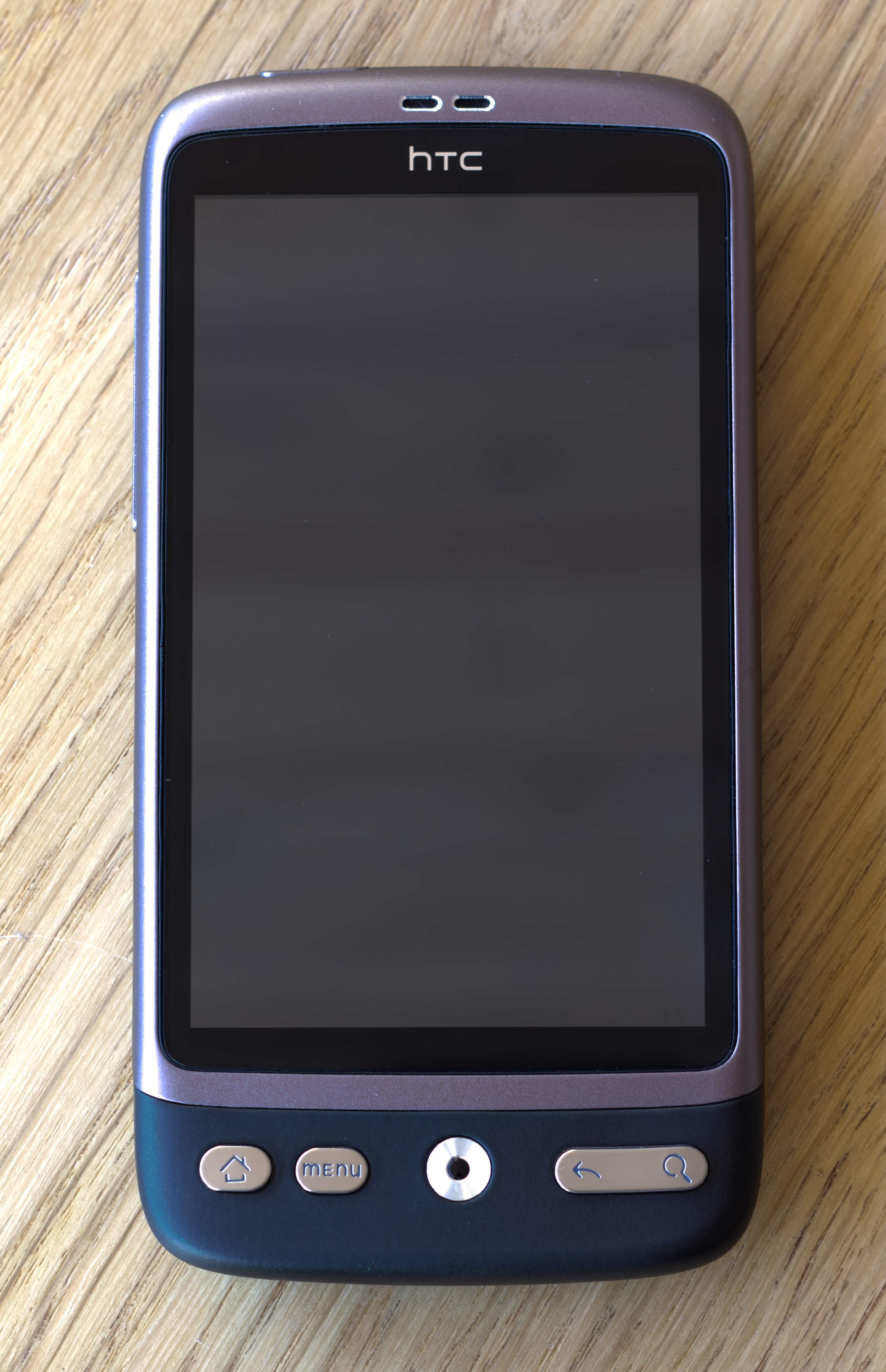 A HTC Desire